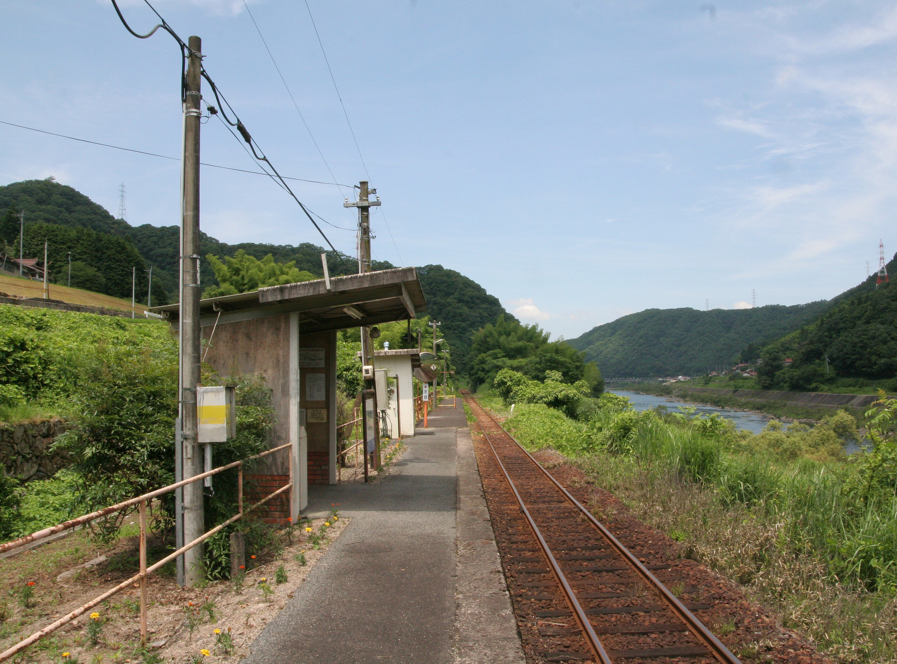 West Japan Railway Sanko Line Nobuki Station enclosure